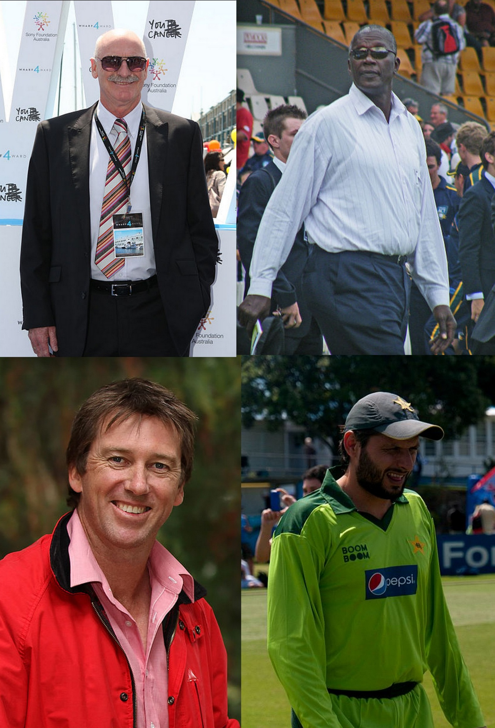 Dennis Lillee, Joel Garner, Shahid Afridi and Glenn Mcgrath